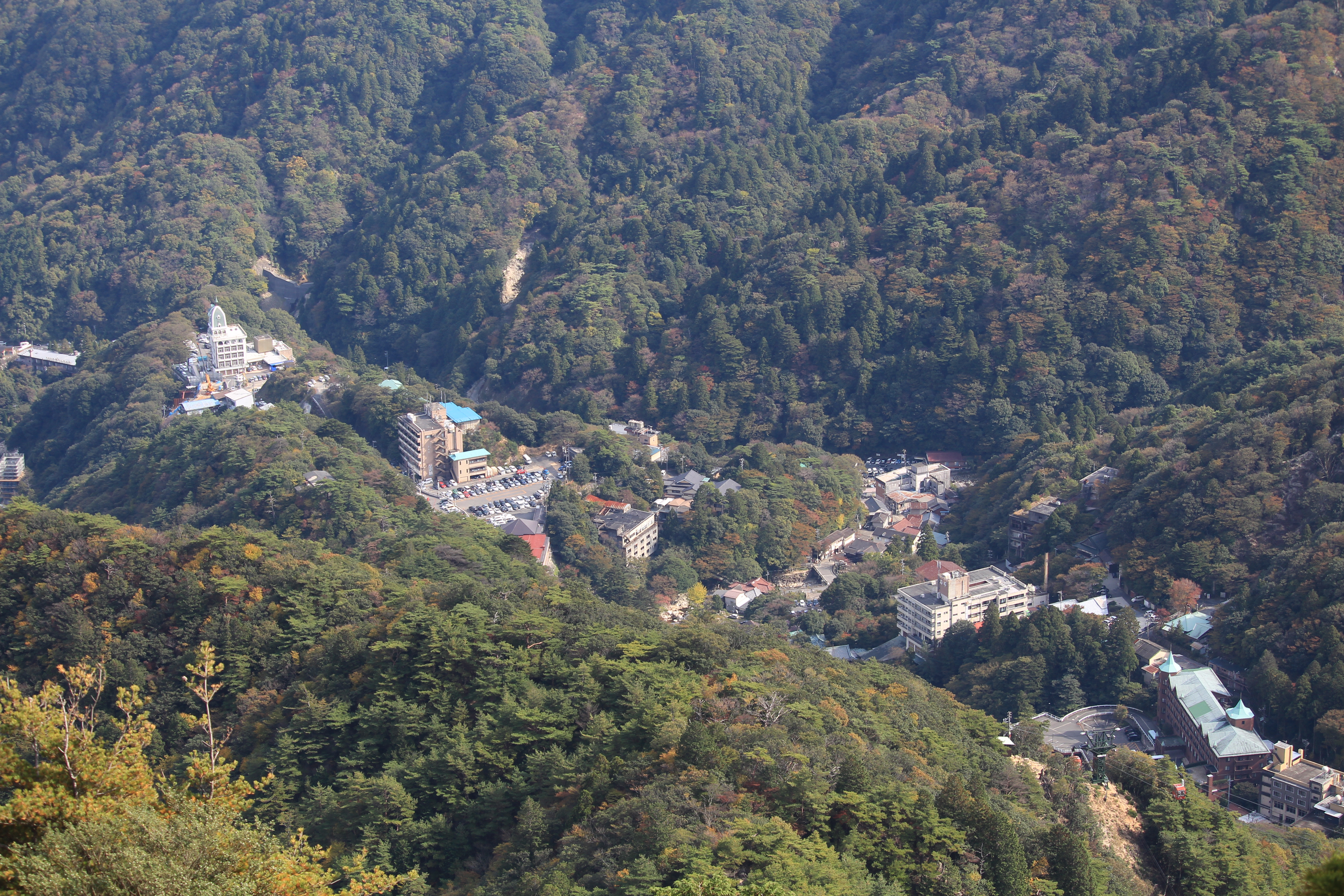 Yunoyama Onsen seen from Mount Gozaisho, Komono, Mie prefecture, Japan.